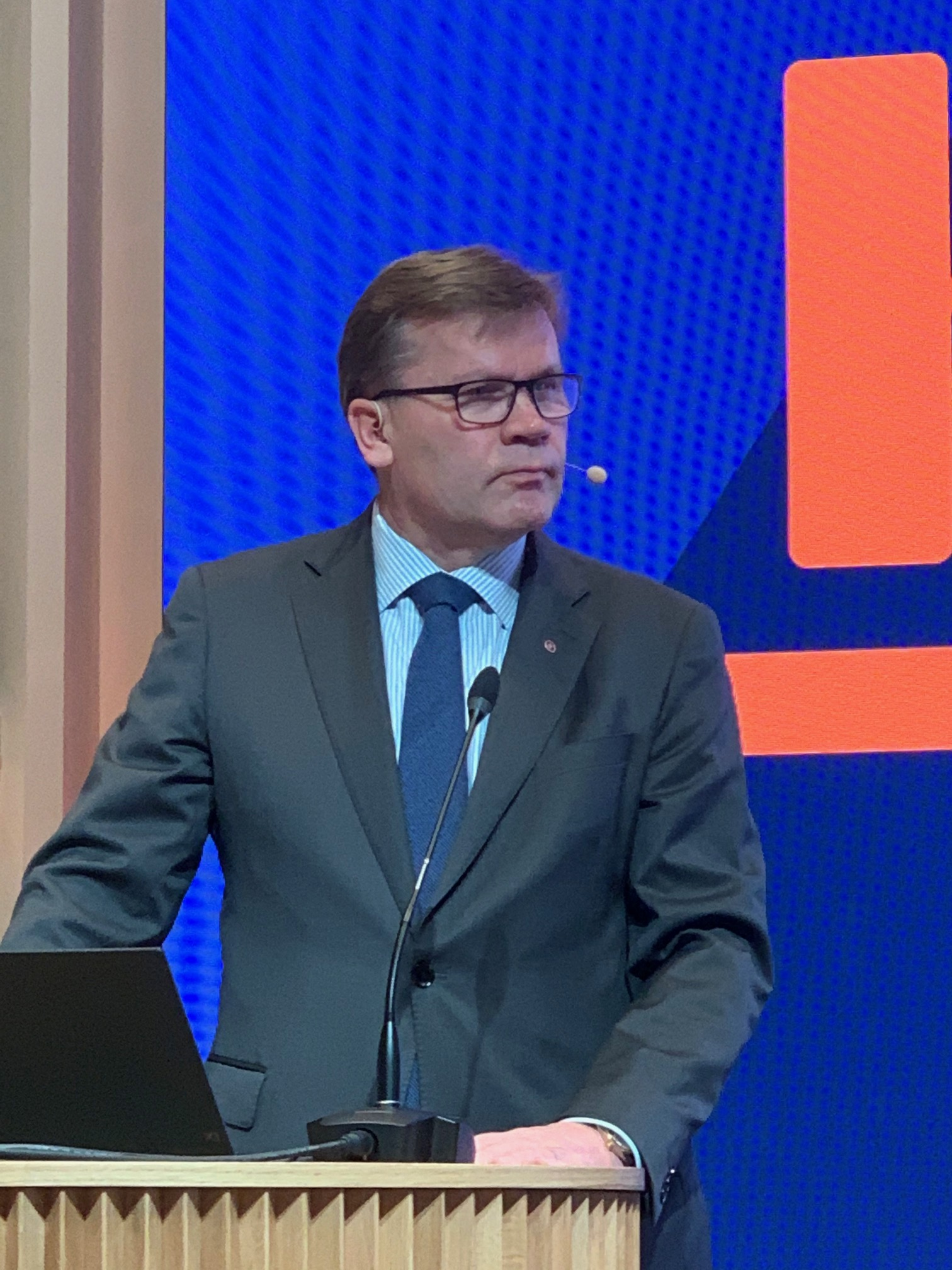 Mikko Helander CEO and President Kesko